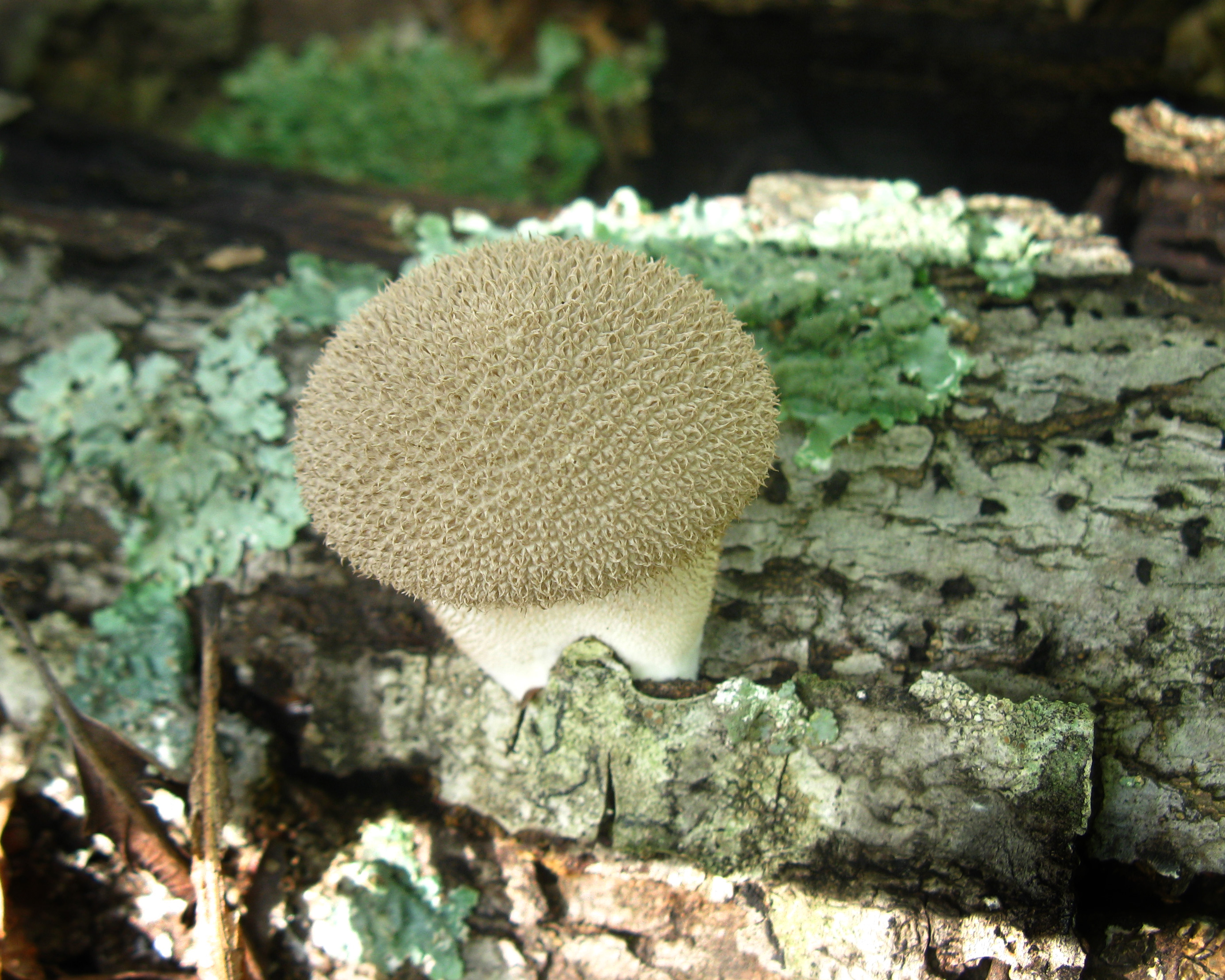 Lycoperdon pulcherrimum Location: Cornelia City Park, Cornelia, Habersham Co., Georgia, USA Notes: Specimen is medium grey with a contrasting white stalk. Found species growing from pine trunk.